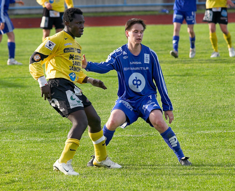 Ghanaian attacking midfielder Seth Ablade of KuPS. Finnish Cup game PK-37 vs KuPS at Sankariniemi, Iisalmi. Game ended 0-5. Ablade is currently playing for OPS.